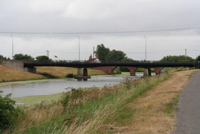 Two bridges and a green river